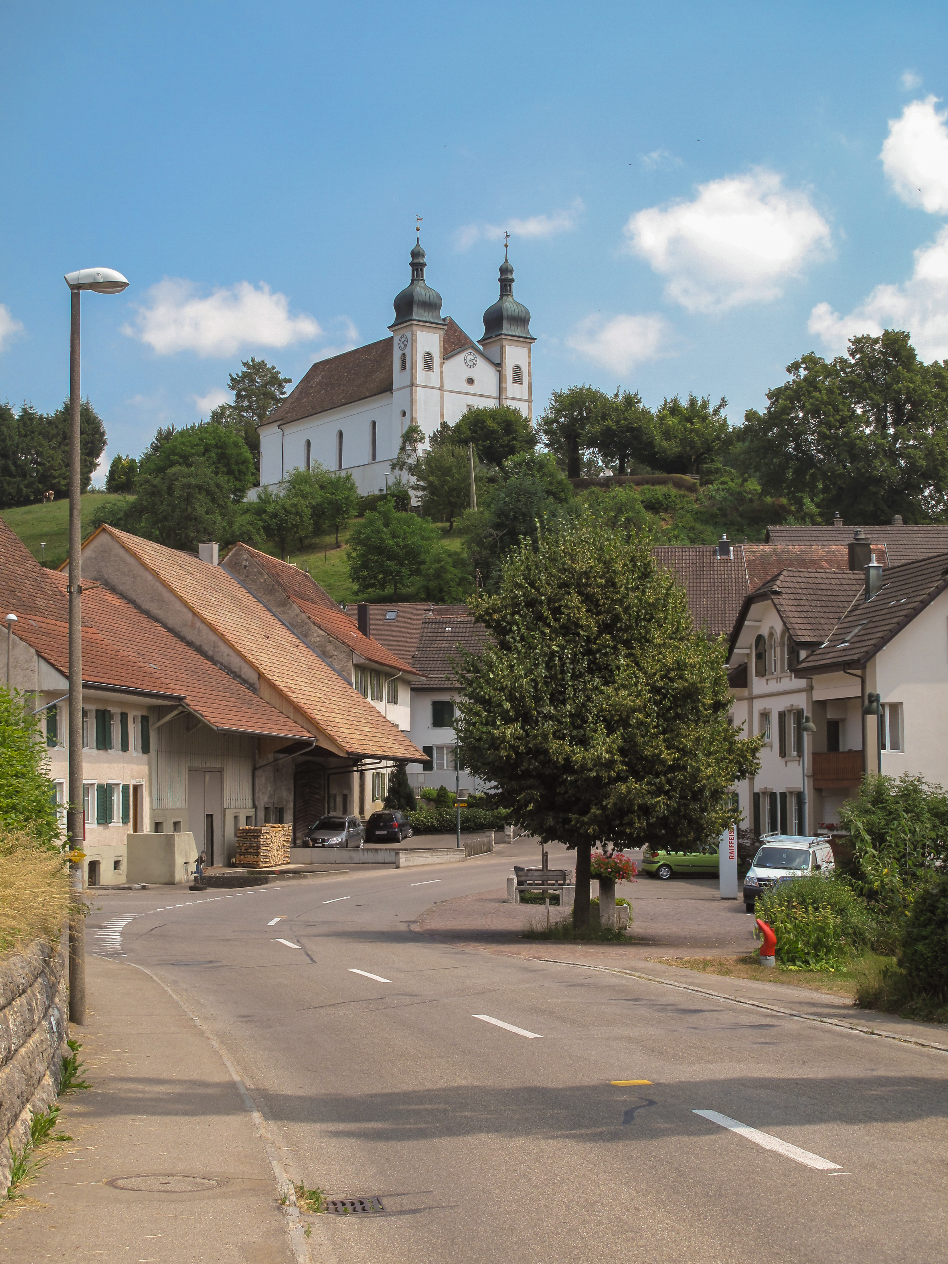 Seewen, church (die Sankt German Kirche ) in the street